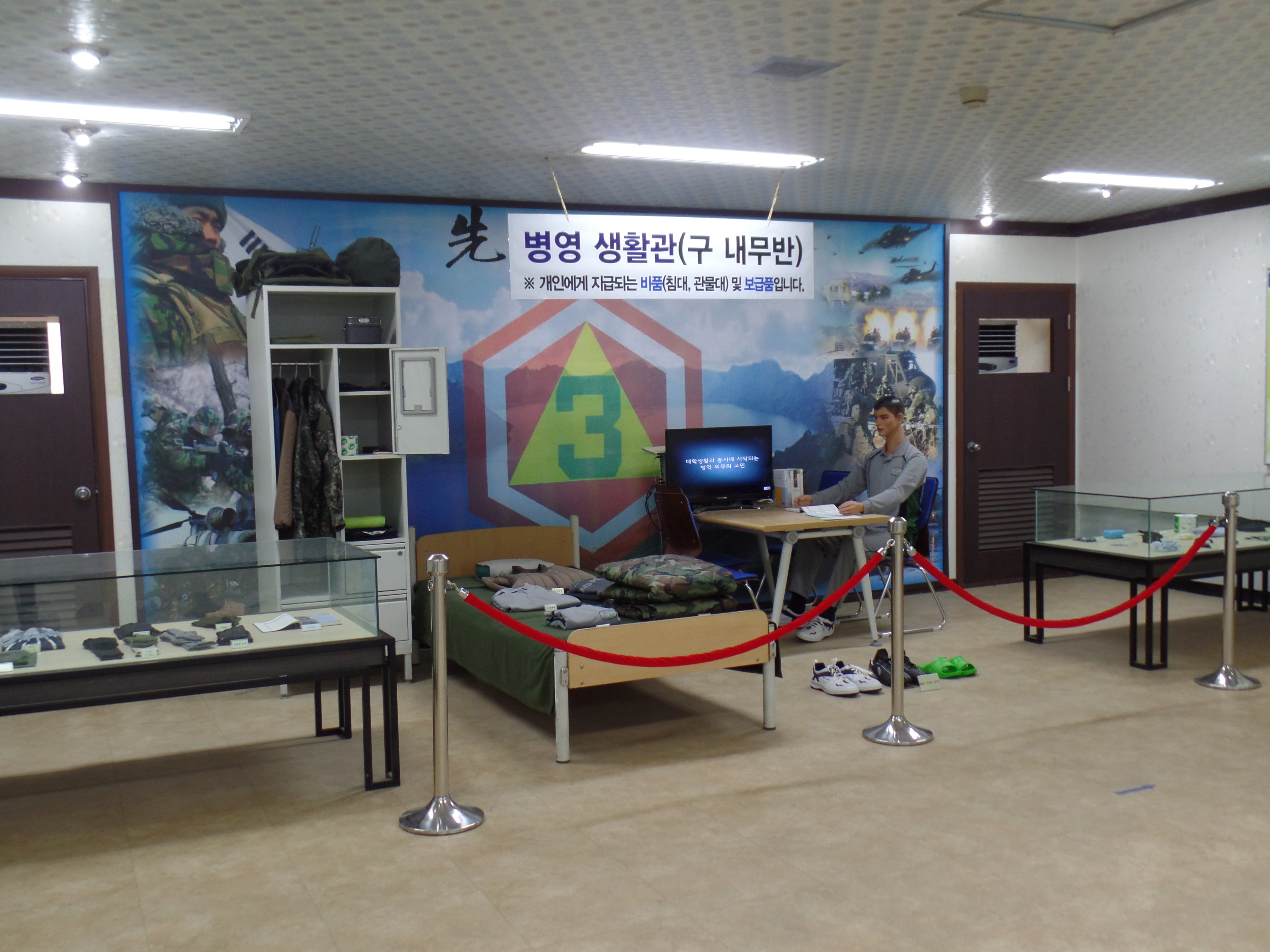 Bed and Cabinet of Squadroom and Indiv Supplies in ROKA 306th Replacement Battalion Public Affairs Office